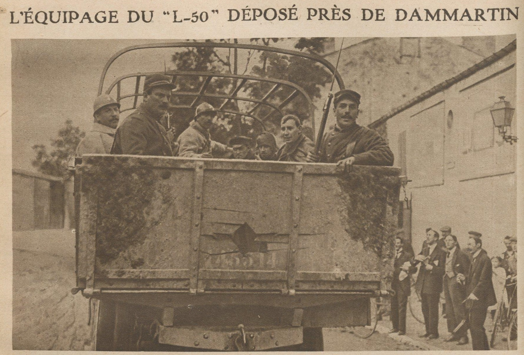 Part of the crew of the Zeppelin L-50 captured near the village of Dammartin returning from a bombing England. Photograph published by the French weekly Le Miroir November 4, 1917 with the following information : "2 officers and 14 crewmen were captured and taken to Bourbonne-les-Bains. The airship was returning from Norwich (England) and attempted to land at Dammartin. But one of the ships was blown off and the men had to bail out. The zeppelin has subsequently led to Switzerland. Here the van carrying prisoners to Bourbonne-les-Bains".